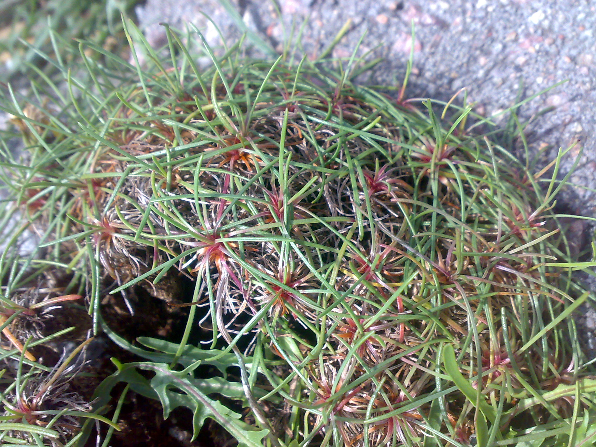 Armeria maritima Sögne, Norway